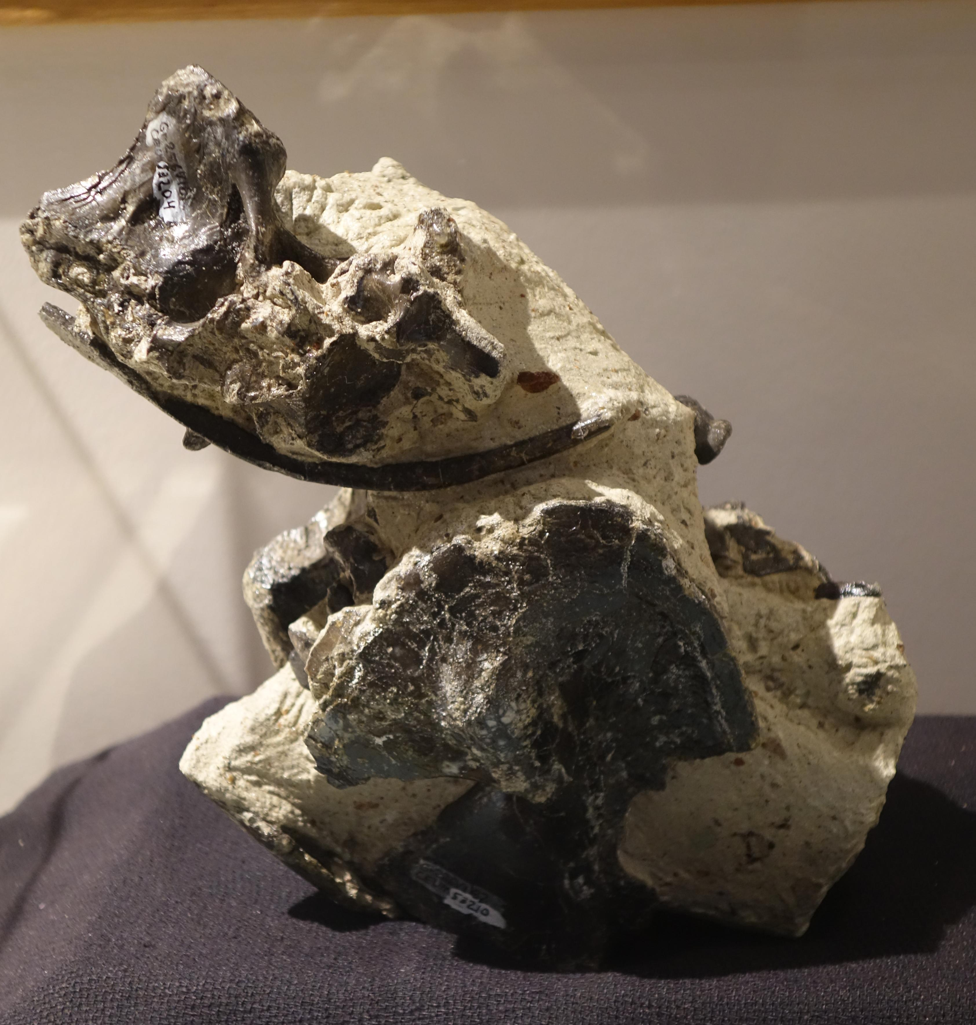 Block containing dense concentration of bones of the dinosaur Falcarius. Fossils from the Cedar Mountain Formation of Utah. Specimen number CEUM 8429. On display at the USU Eastern Prehistoric Museum, Price, Utah (US).